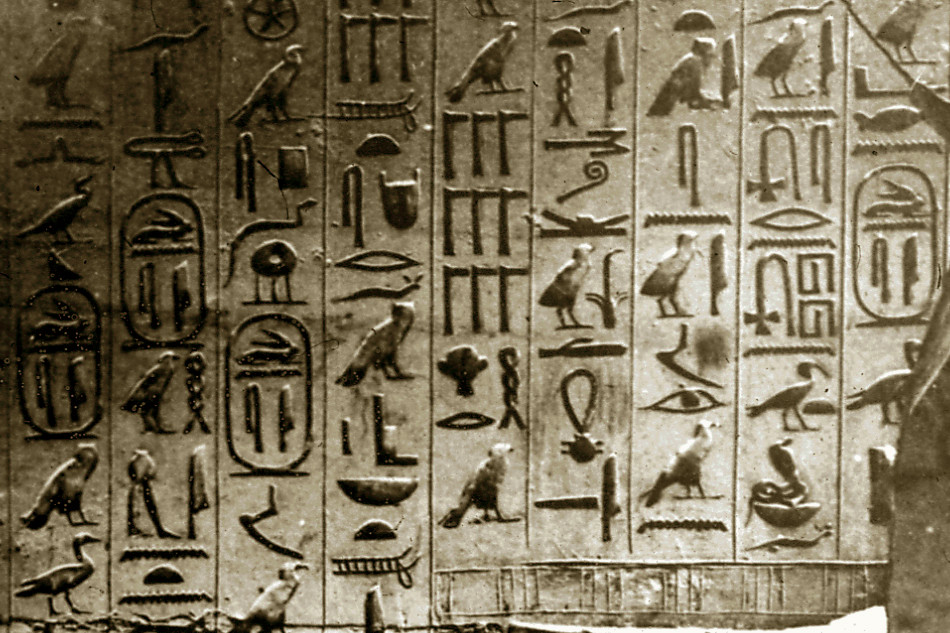 Lantern Slide Collection: Views, Objects: Egypt. Sakkara [selected images]. View 17: Burial Chamber. Pyramid of Unas. 5th Dyn. Sakkara., n.d. Brooklyn Museum Archives (S10-08 Sakkara, image 9643). Date: 1900 This image was uploaded at high resolution and it helps us to know how our visitors work with our images, so if you use it, we'd love to know how! Drop us a line by leaving a comment here or email our archivist: Original